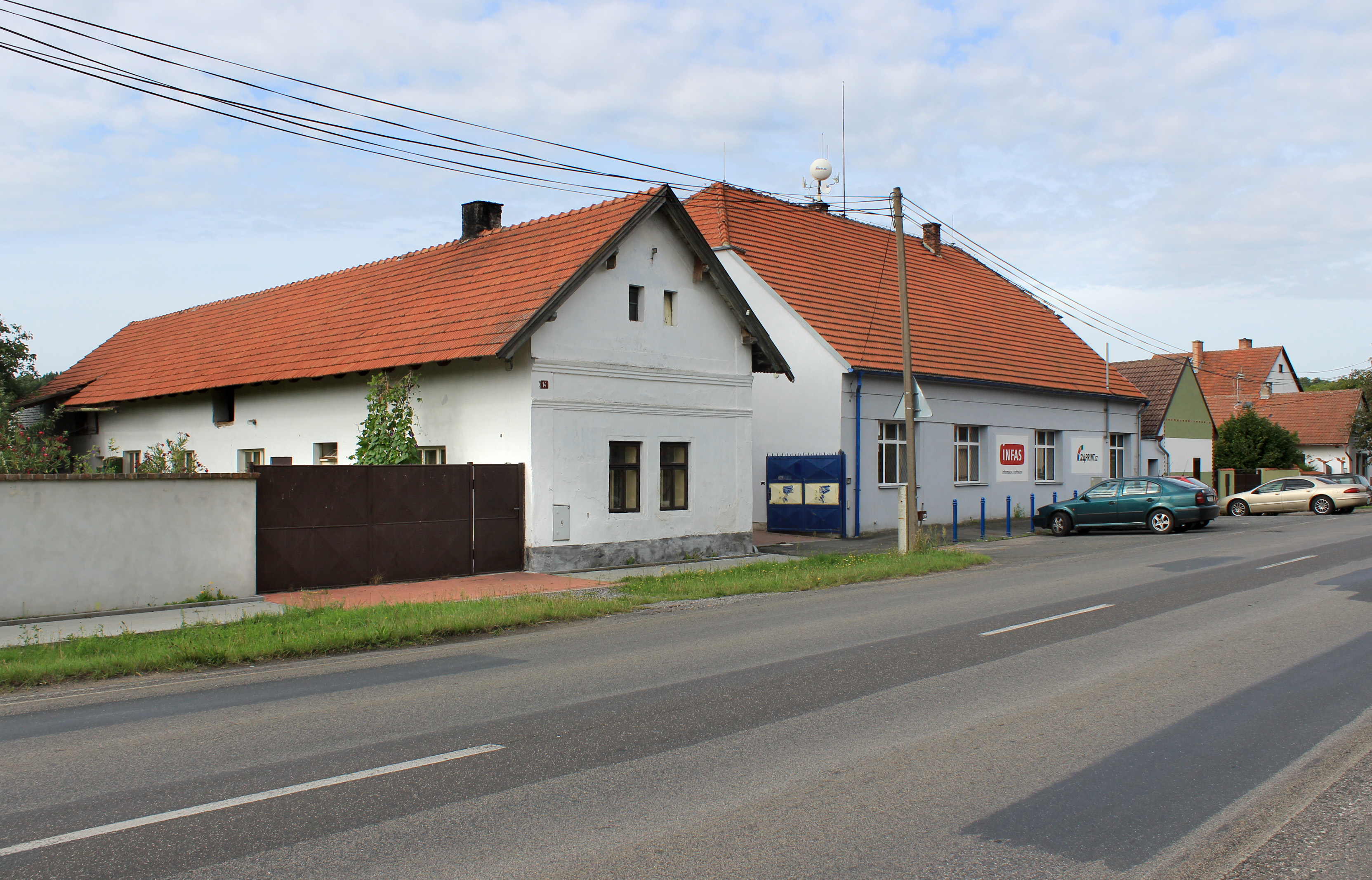 House No. 14 in Písková Lhota, Czech Republic.